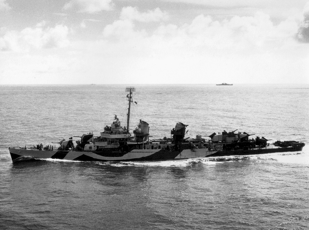 The U.S. Navy destroyer USS Cassin Young (DD-793) underway in the Pacific Ocean in 1944. The ship is painted in Camouflage Measure 32 Design 7D. The photo was taken from the aircraft carrier USS Essex (CV-9).